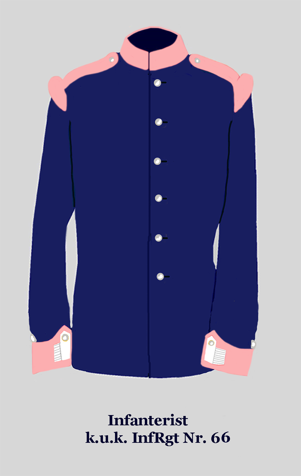 Private of the Austria-Hungarian Infantry (Hungarian style Tunic with light-red regimental identification color and white buttons)